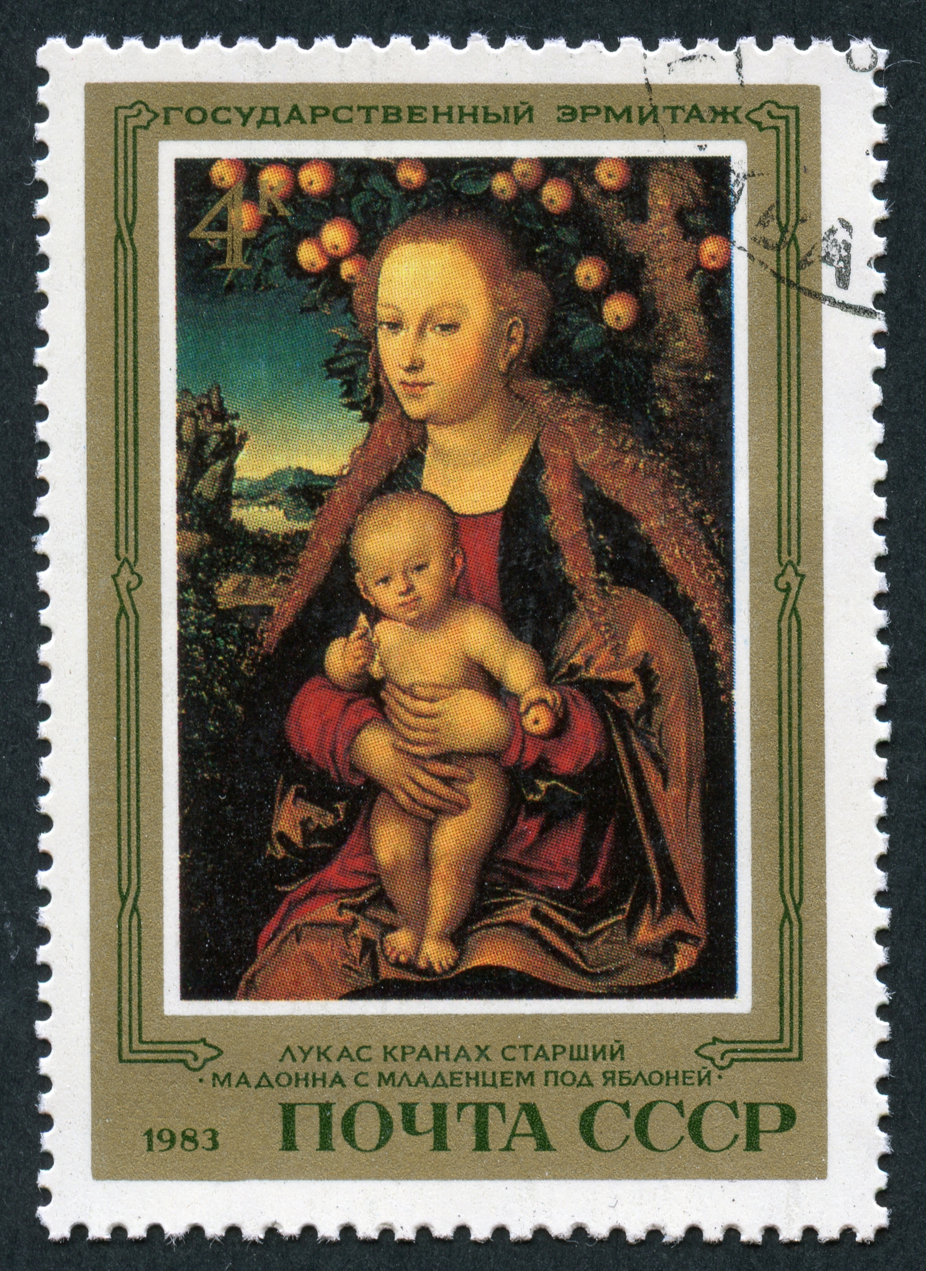 A USSR stamp